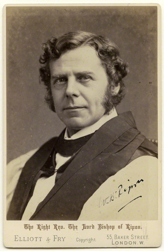 William Boyd Carpenter (1841-1918), Bishop of Ripon 1884-1912.